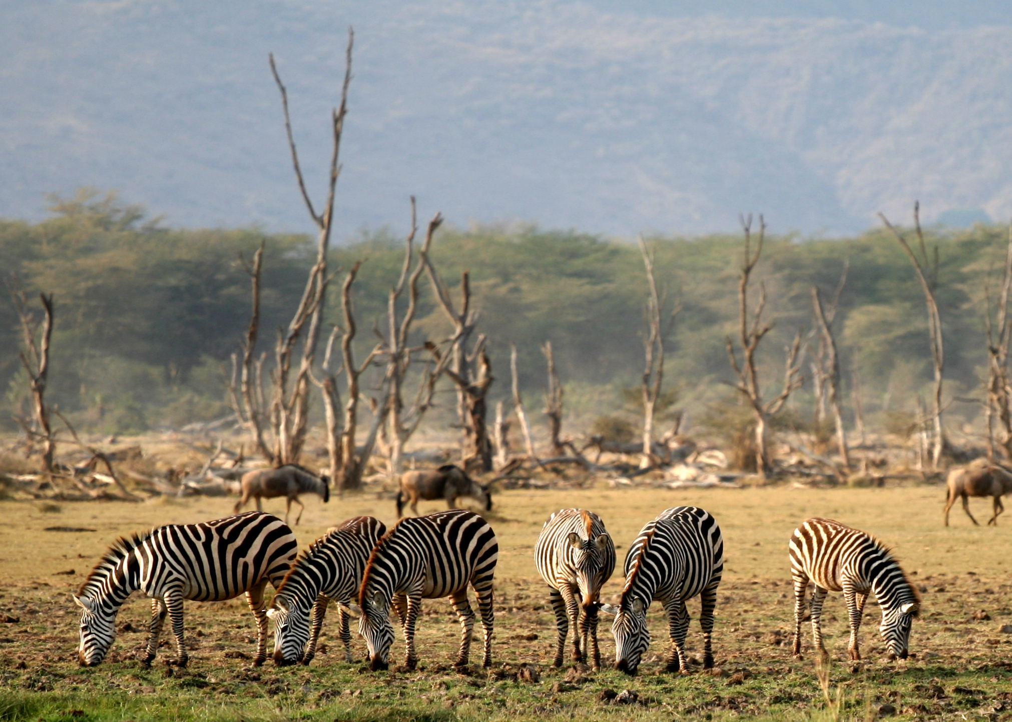 Wildlife at Lake Manyara National Park, Tanzania, Africa. Zebras and other species are in abundance at Lake Manyara.